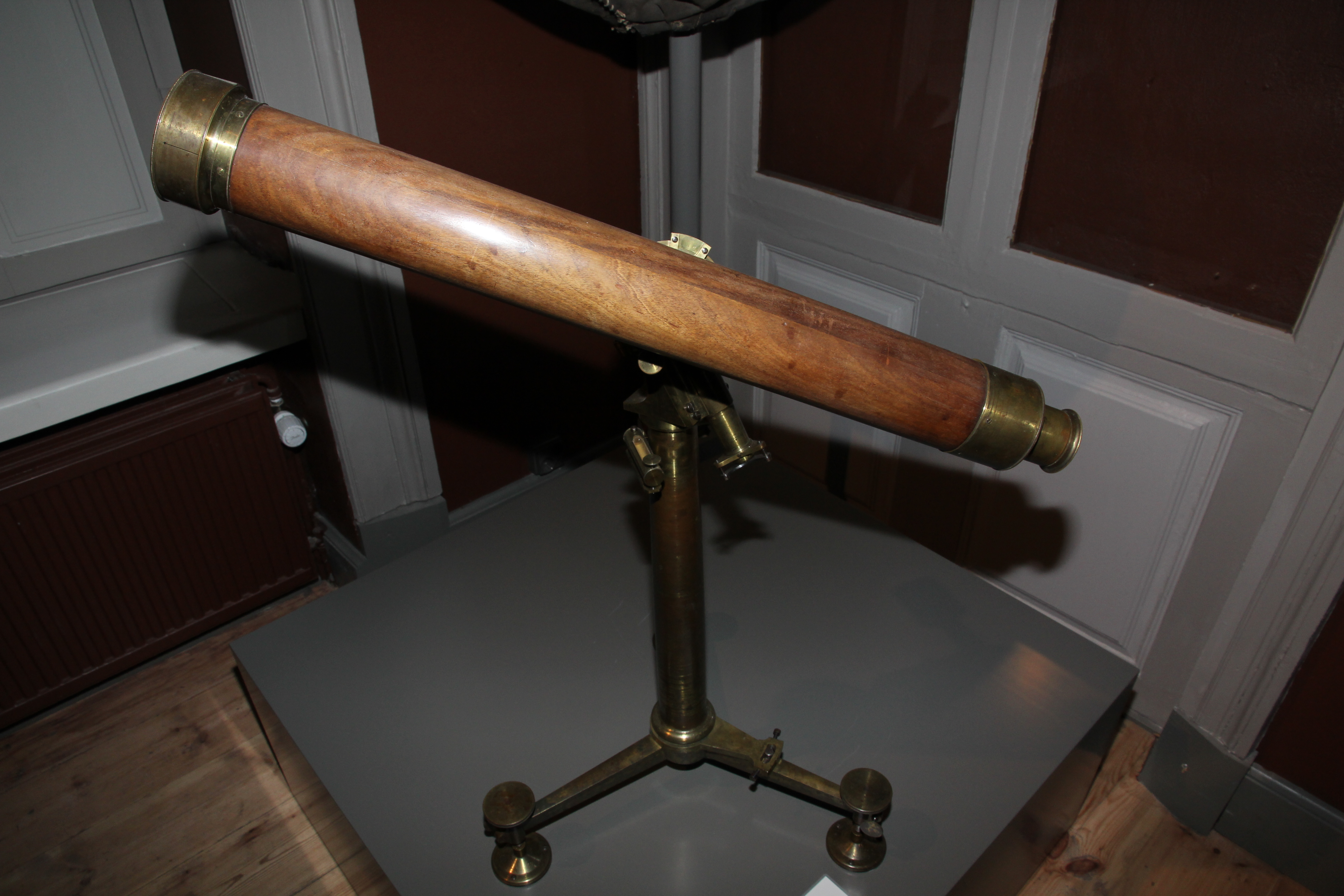 Comet seeker telescope with a short focal length and a relatively large aperture in the Meridian hall of the Helsinki observatory. Made by Utzschneider und Fraunhofer in 1830s.